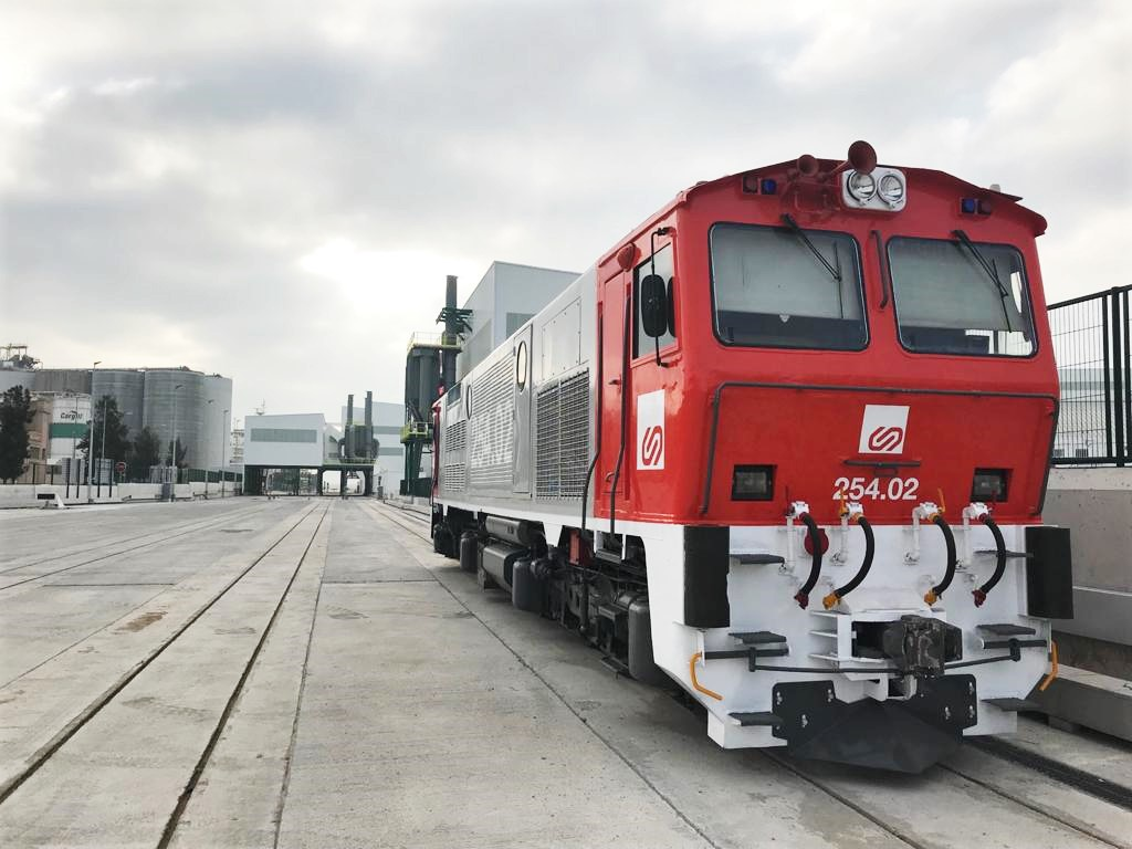 The 254.02 locomotive of Ferrocarrils de la Generalitat de Catalunya was the first train to access the new Álvarez de la Campa terminal, in the port of Barcelona.